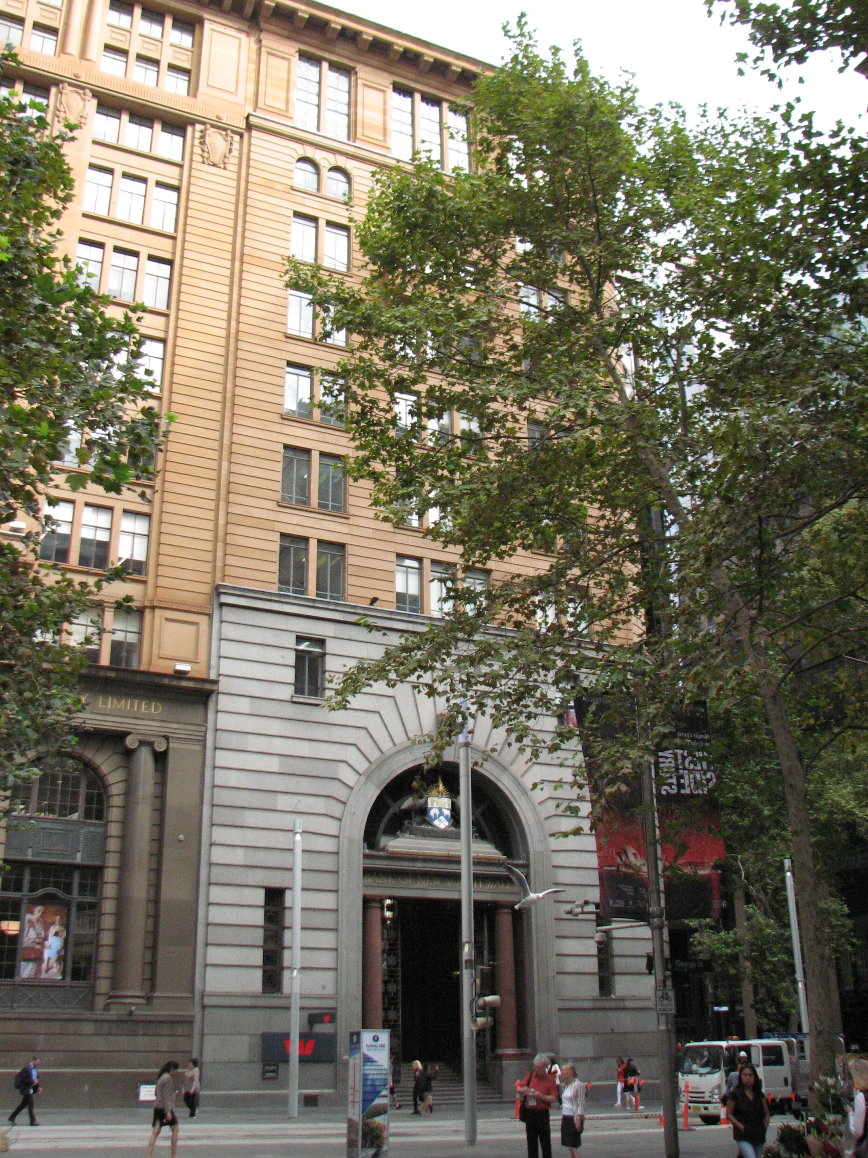 341 George Street, Sydney is a heritage-listed former Bank of New South Wales/Westpac bank building